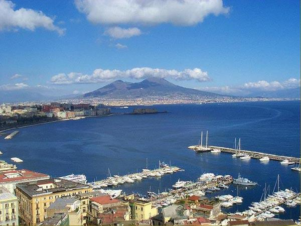 This picture is a view of the Bay of Naples looking across to the Mount Vesuvius.